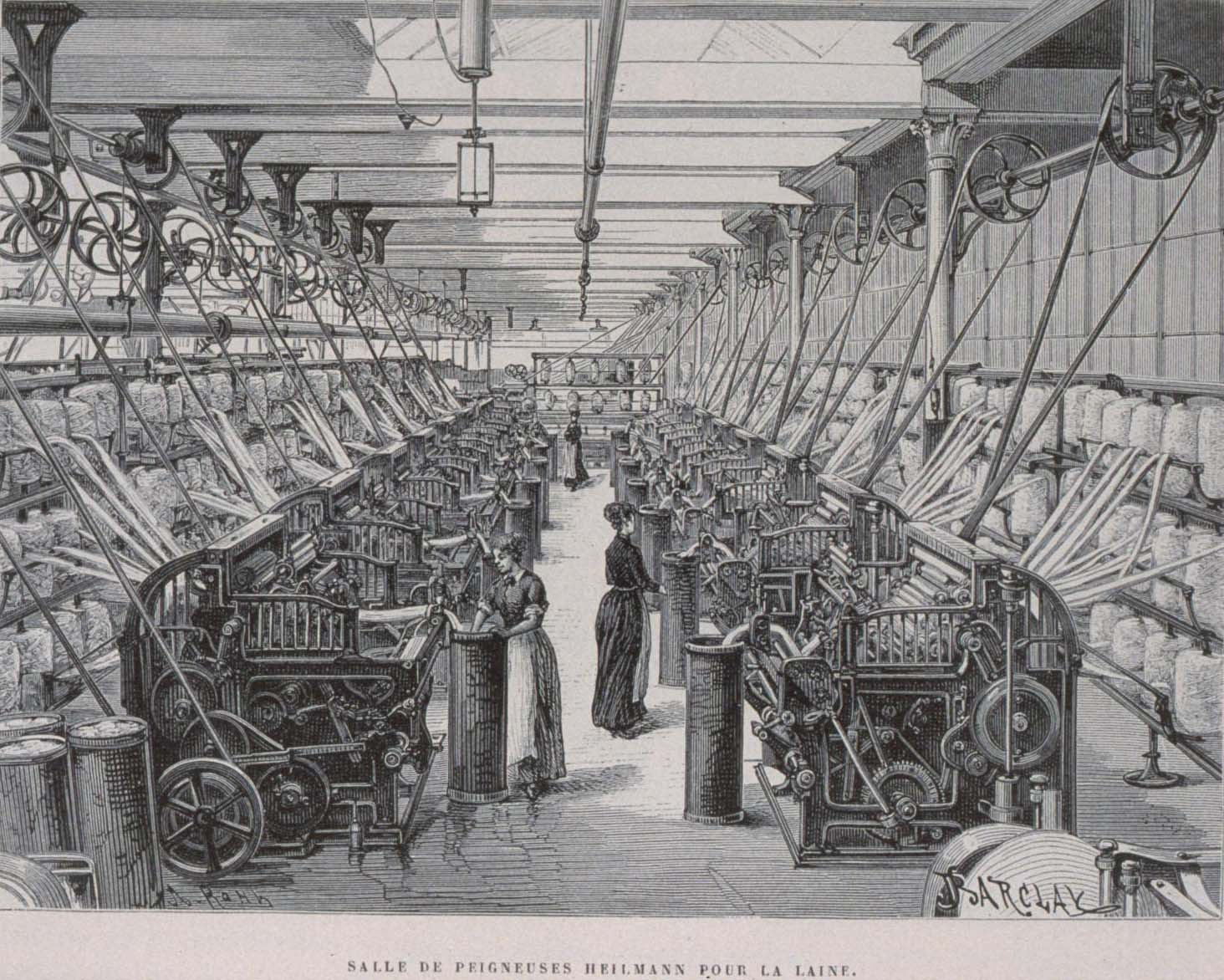 Hall for combing of wool